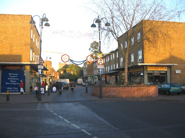 High Street, Westbury. Looking northeast along High Street, Westbury towards the library. The tower of All Saints Church can be seen behind the trees at Soissy-sur-Seine Gardens.